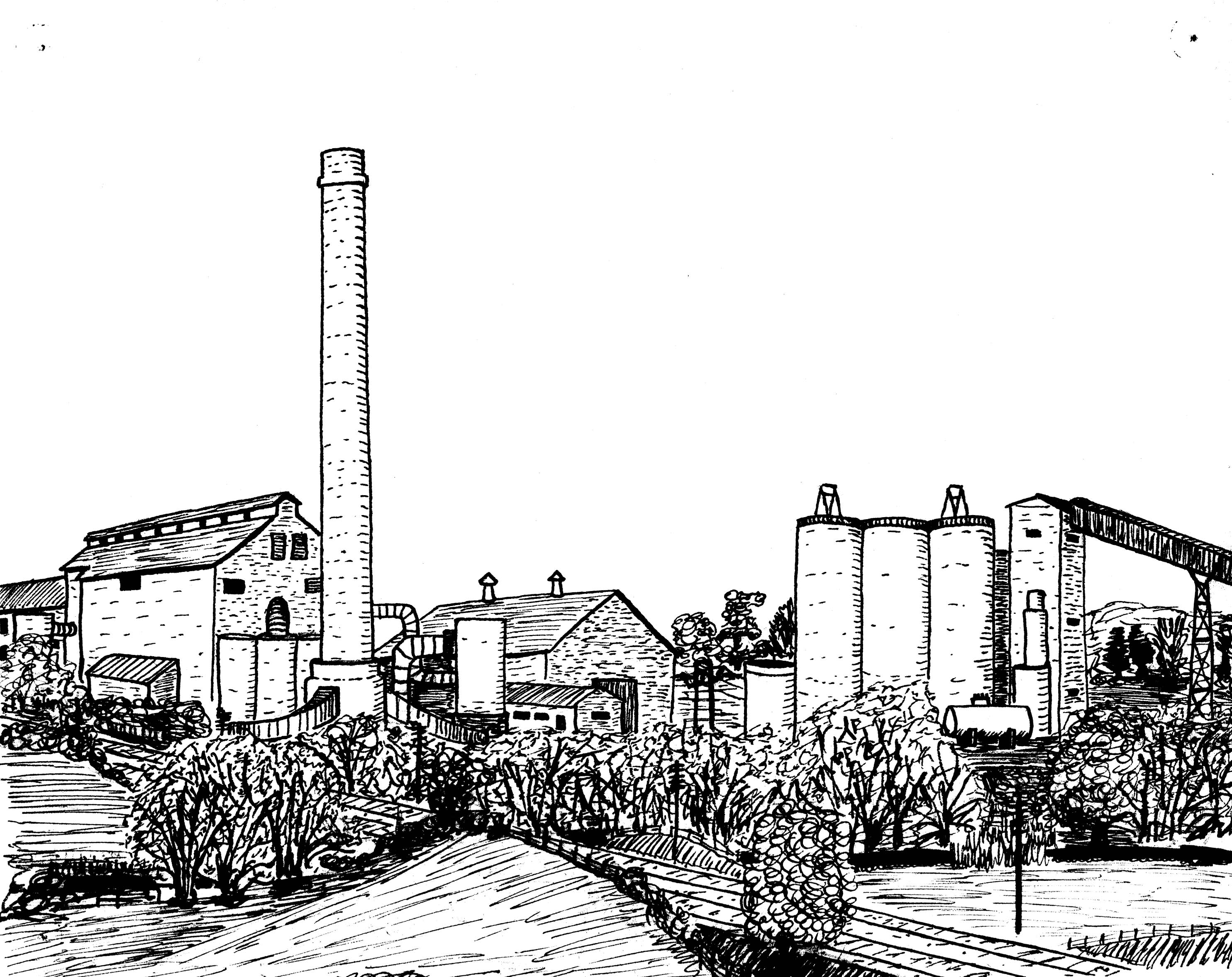 Sketch of Shipton-on-Cherwell cement works, Oxfordshire.